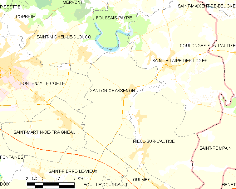 Map of French municipality Xanton-Chassenon